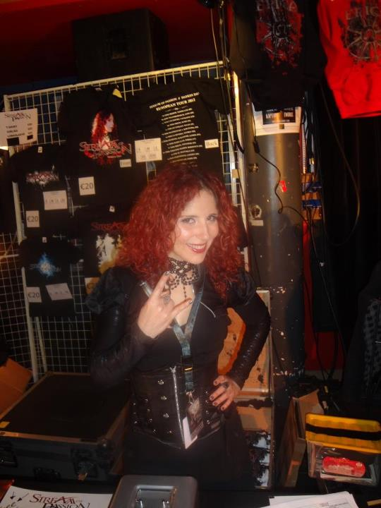 The singer Marcela Bovio on Wednesday, April 25th 2012, at the Rock School Barbey in Bordeaux (France) to perform with Stream of Passion as the opening act for Epica.